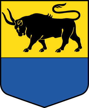 Coat of arms of Taurupe parish, Latvia. Blazon “party per fess Or a bull Sable and Azure”